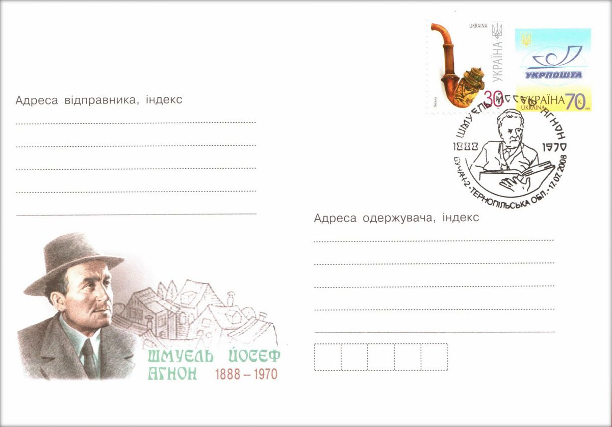 Postal stationery (cover) of Ukraine, Shmuel Yosef Agnon, with a pictorial cancellation, a pre-printed (original) stamp, and a definitive stamp, 2008.